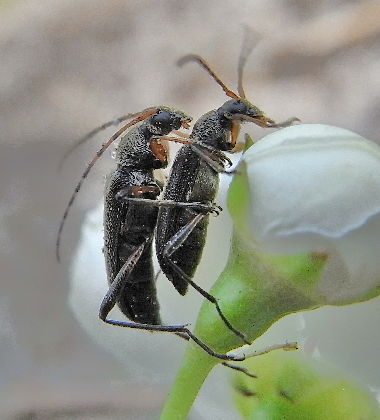 Grammoptera ruficornis from Hungary on Crataegus at 2010-05-01 near Lenti Ricoh R8